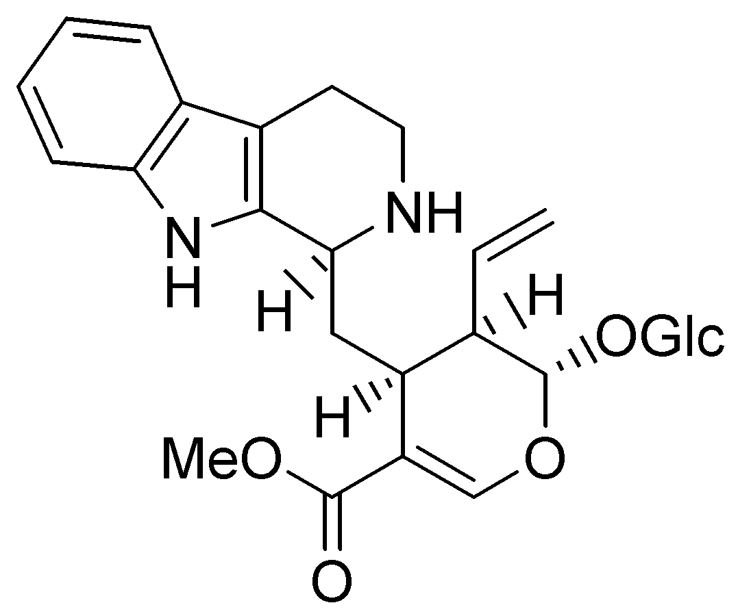 Selfmade with ChemDraw